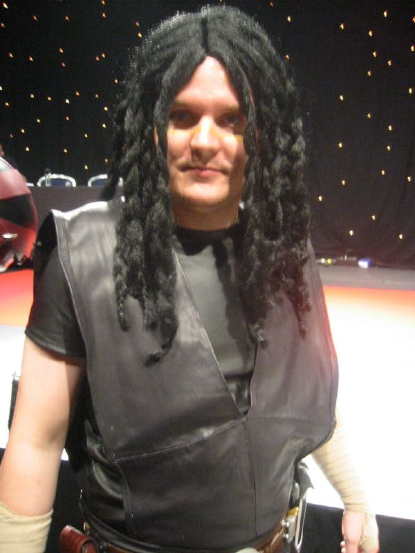 Fans compete in the Star Wars costume pageant at CE. Photo by Bonnie Burton. Read more about Celebration Europe on Costumes at Star Wars Celebration Europe in 2007 at the ExCeL Exhibition Centre, London.